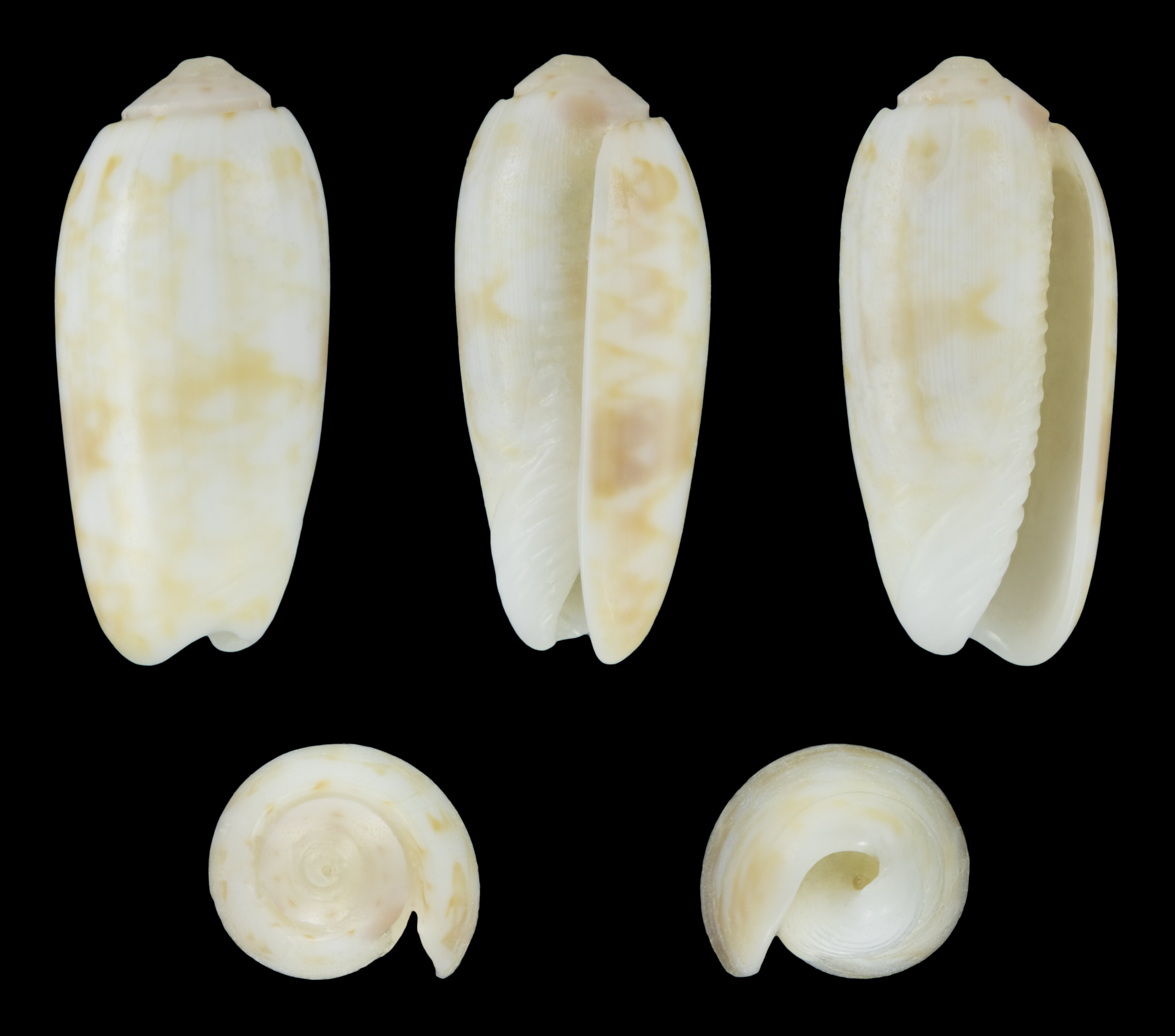 Oliva todosina var. lepida Duclos, 1840; length 1.5 cm; Originating from Nusa Dua, Bali, Indonesia; Shell of own collection, therefore not geocoded.